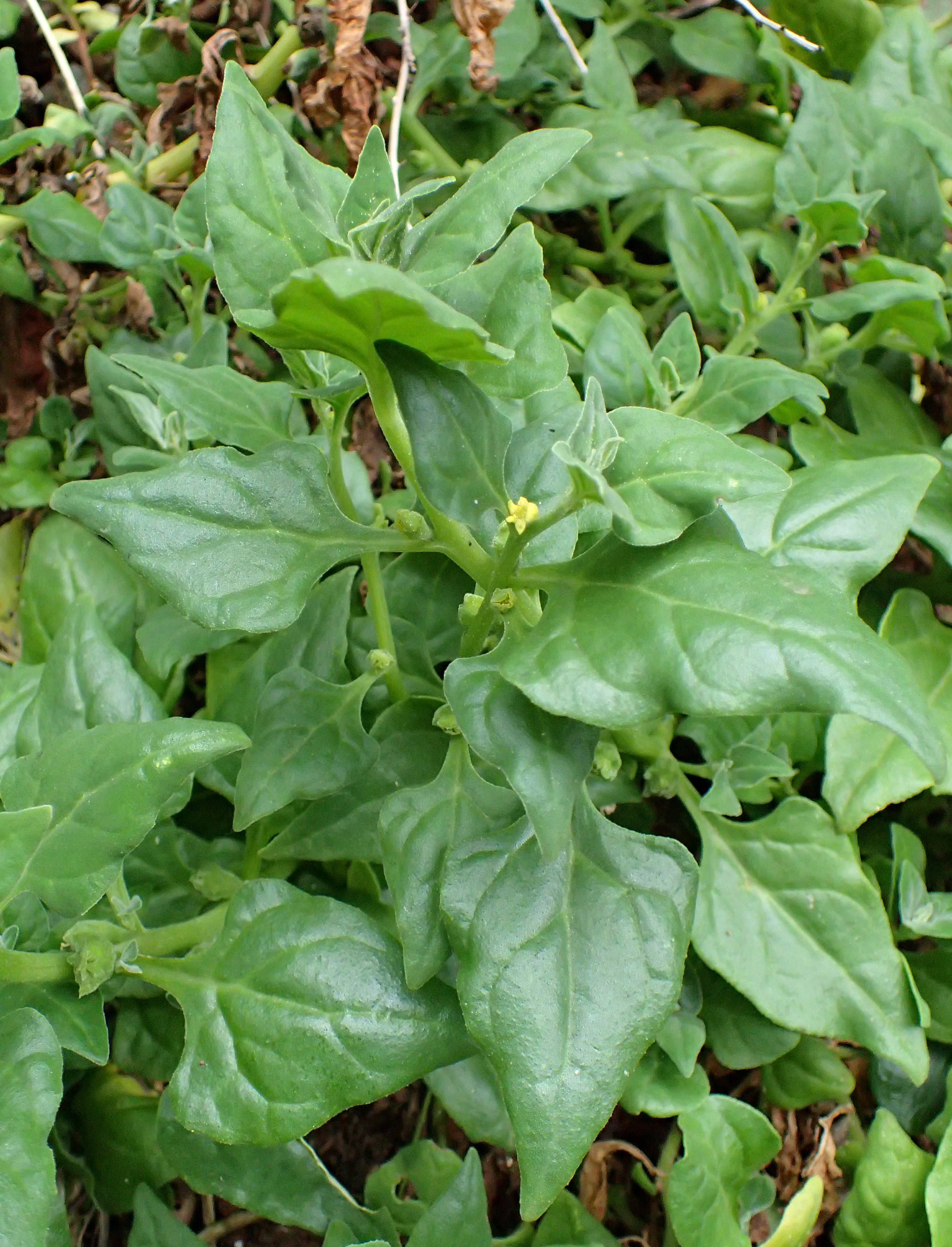 Tetragonia tetragonioides in Anaga, Tenerife, Canary Islands